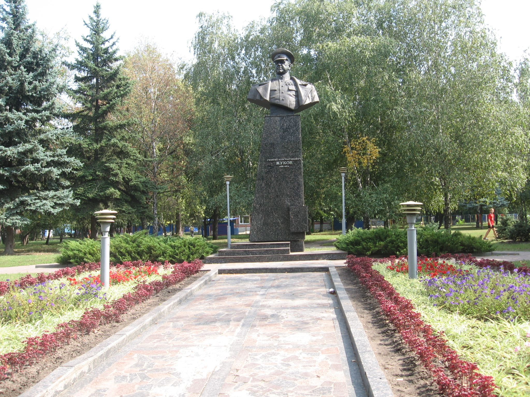 Marshal Zukov monument on the Marshal Zukov Prospect, Kharkiv, Ukraine.